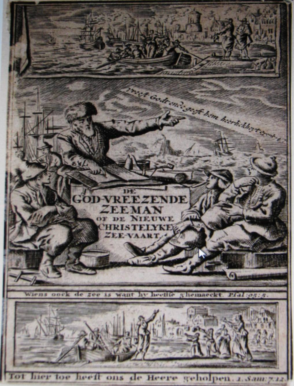 Book cover, religious book